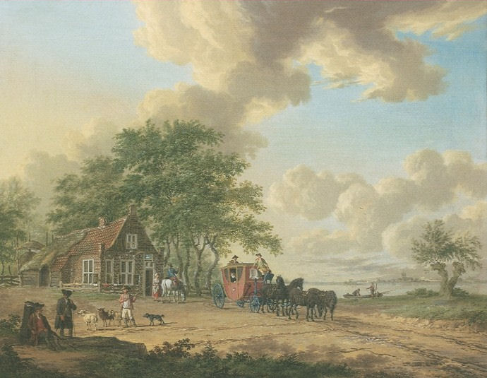 A carriage